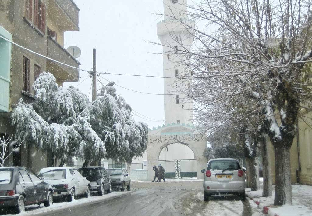 Mosque of Ben Badis Khenchela